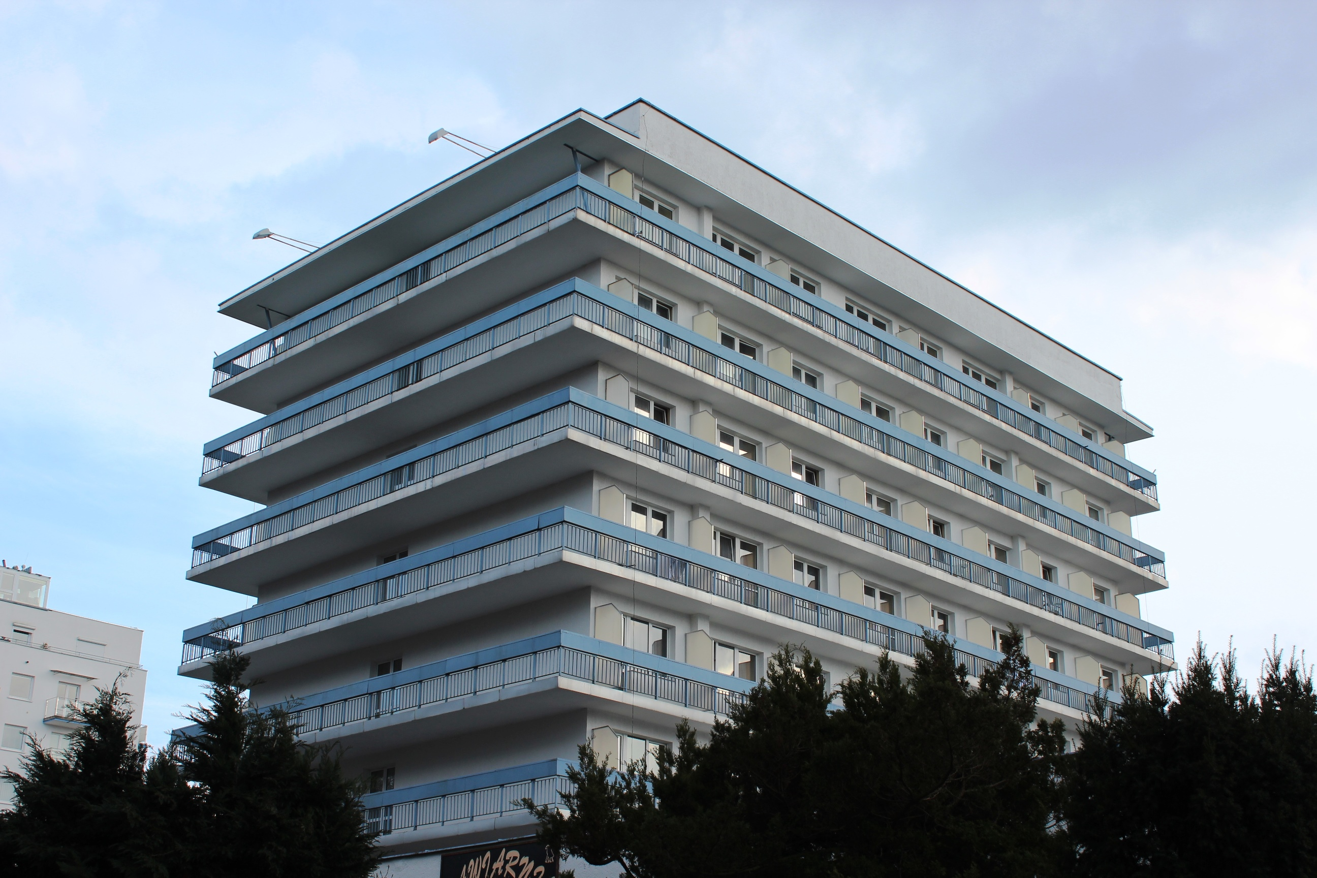 Albax Kielczanka Sanatorium in Kołobrzeg